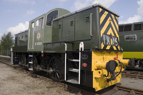 Class 14 Diesel Shunter